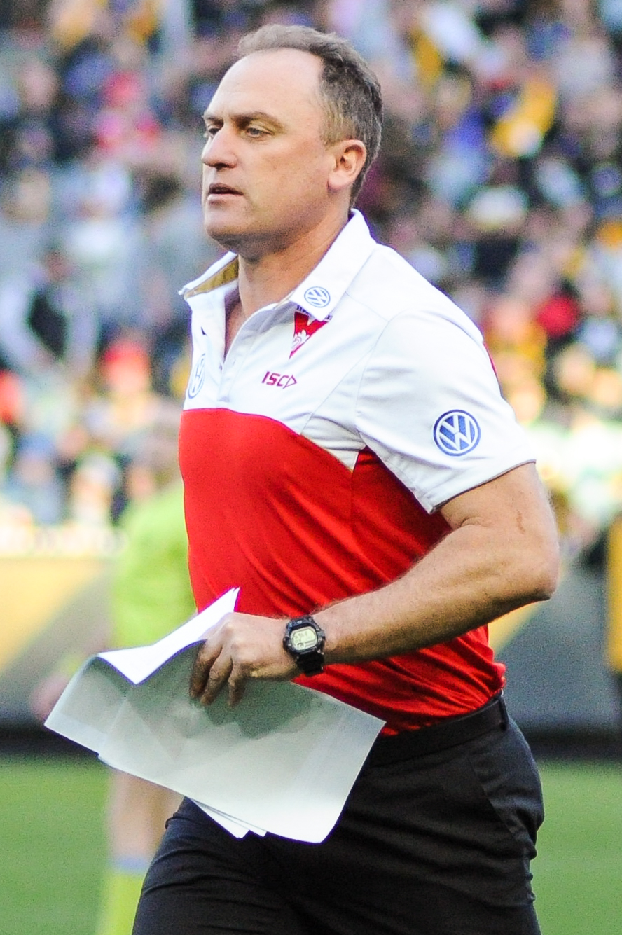 John Longmire during the AFL round thirteen match between Richmond and Sydney on 17 June 2017 at the Melbourne Cricket Ground in Melbourne, Victoria.